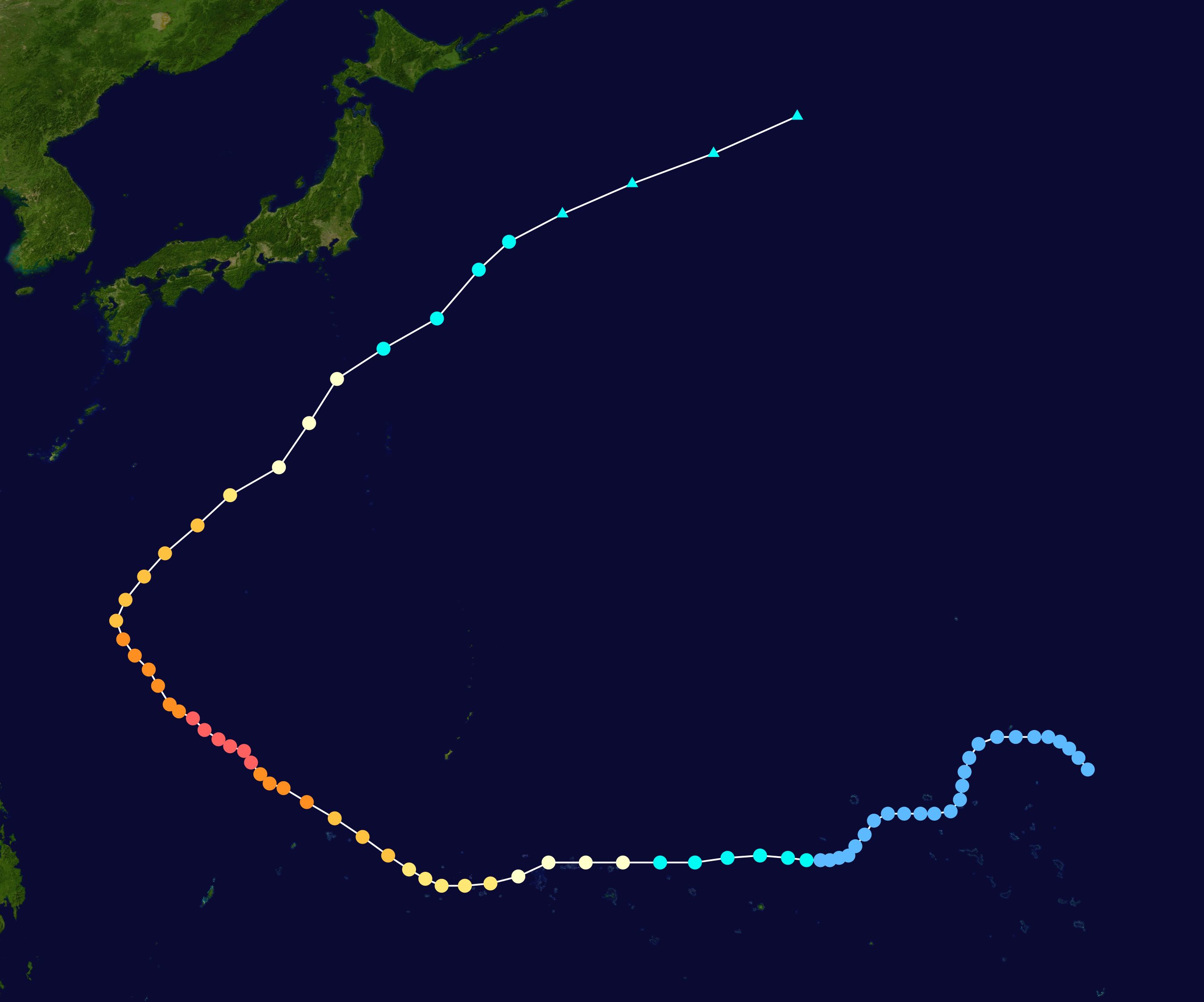 Typhoon Lupit 2003 track. Uses the color scheme from the Saffir-Simpson Hurricane Scale.